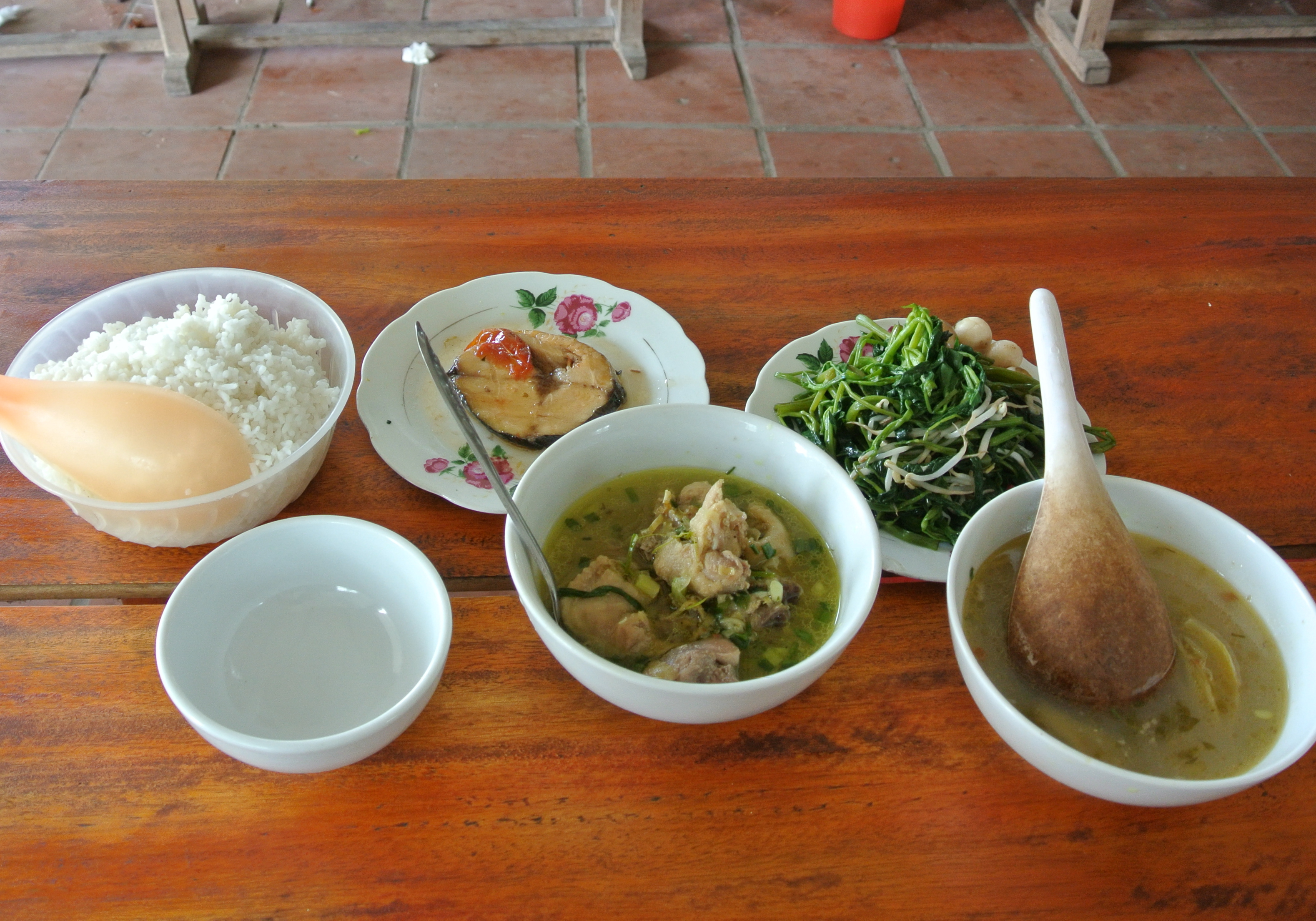 sample of combo menu at Vietamese greasy spoon "Com Binh Dan".